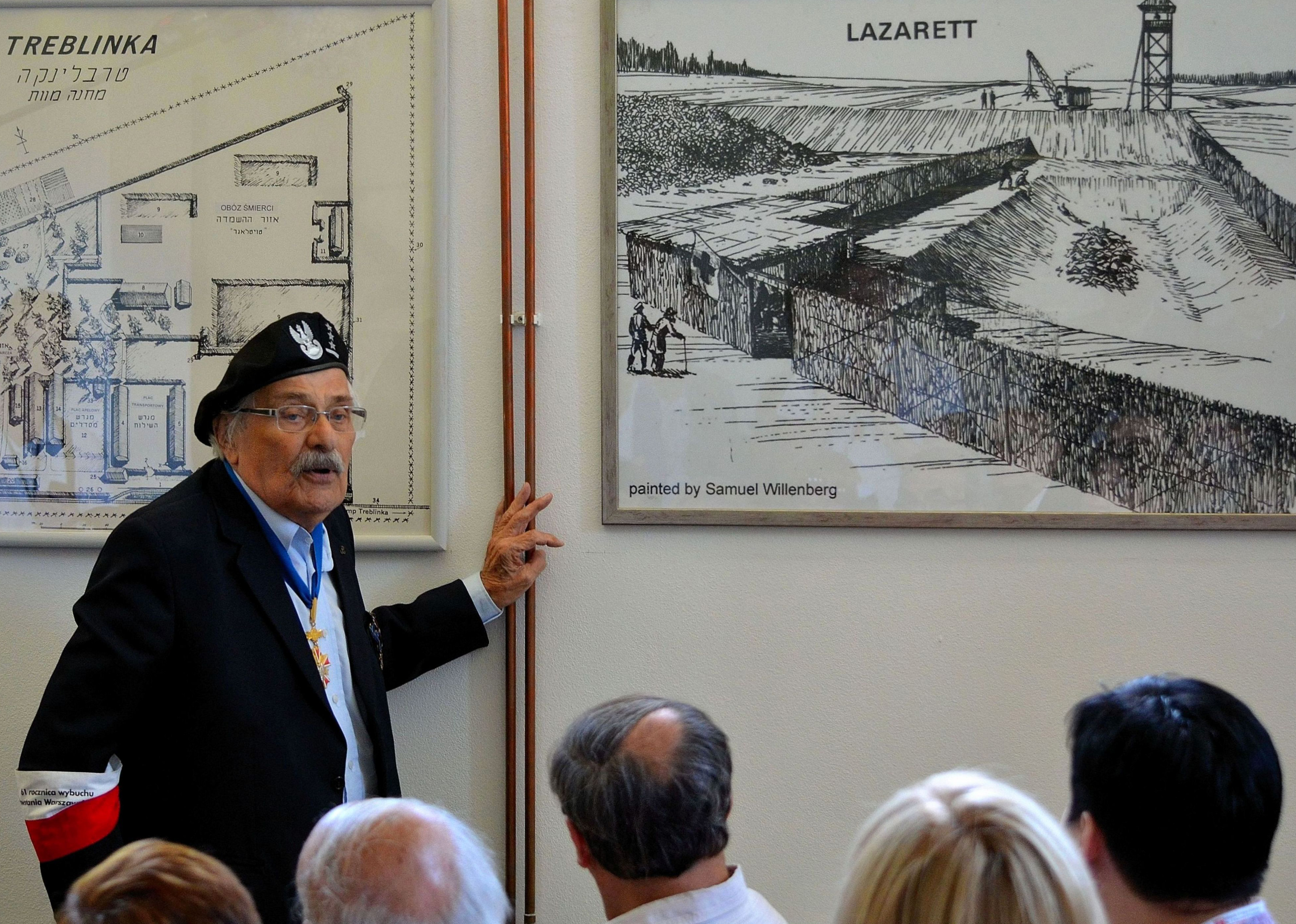 Holocaust survivor Samuel Willenberg presenting his drawings of Treblinka II extermination camp at the Museum of Fight and Martyrdom in Treblinka during the 70th anniversary of the prisoner revolt in Treblinka.